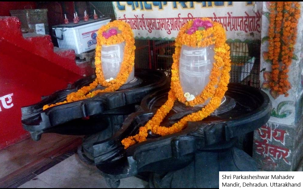 Shri Parkasheshwar Mahadev Mandir Spatika Lingam